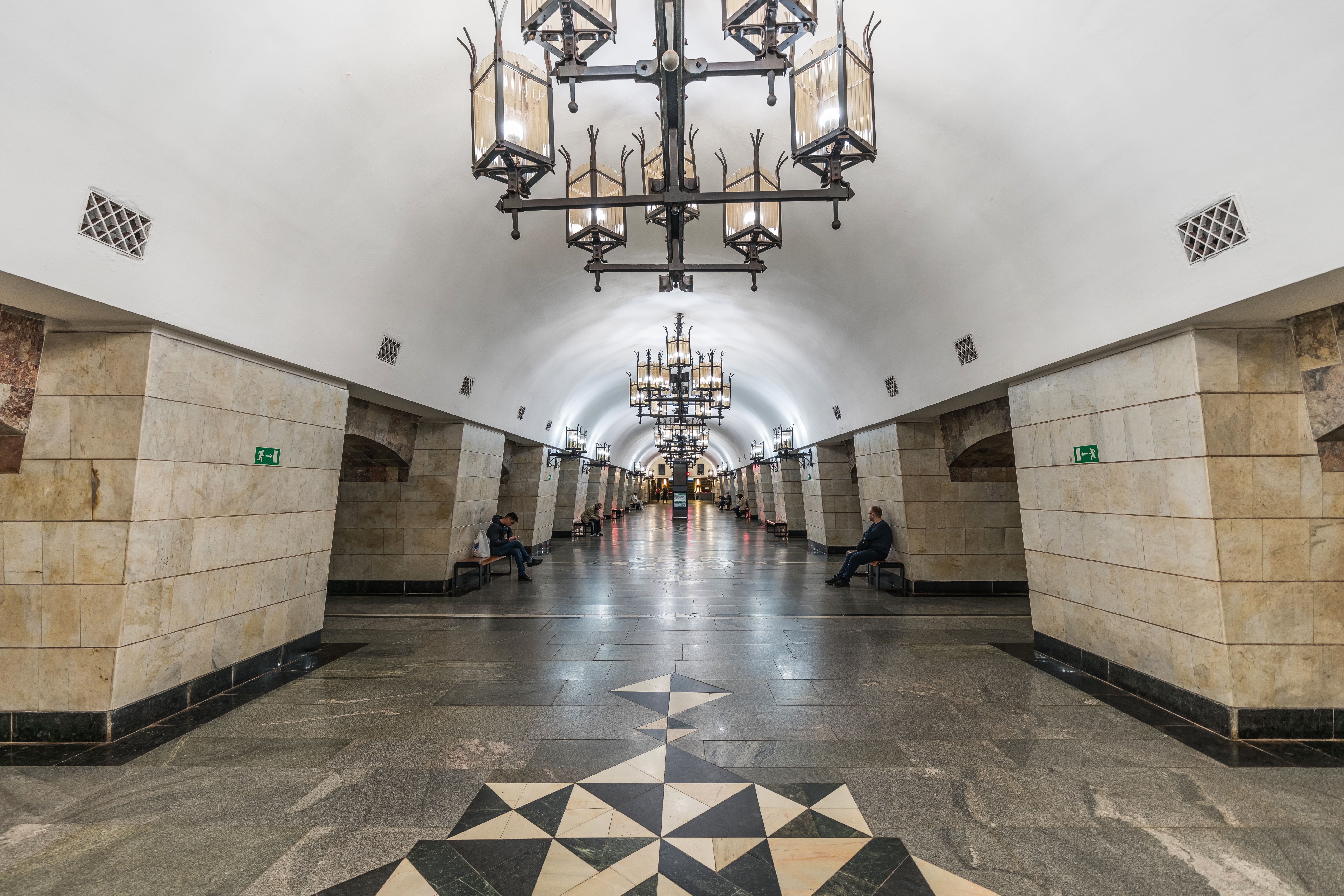 Uralskaya metro station in Ekaterinburg, Russia